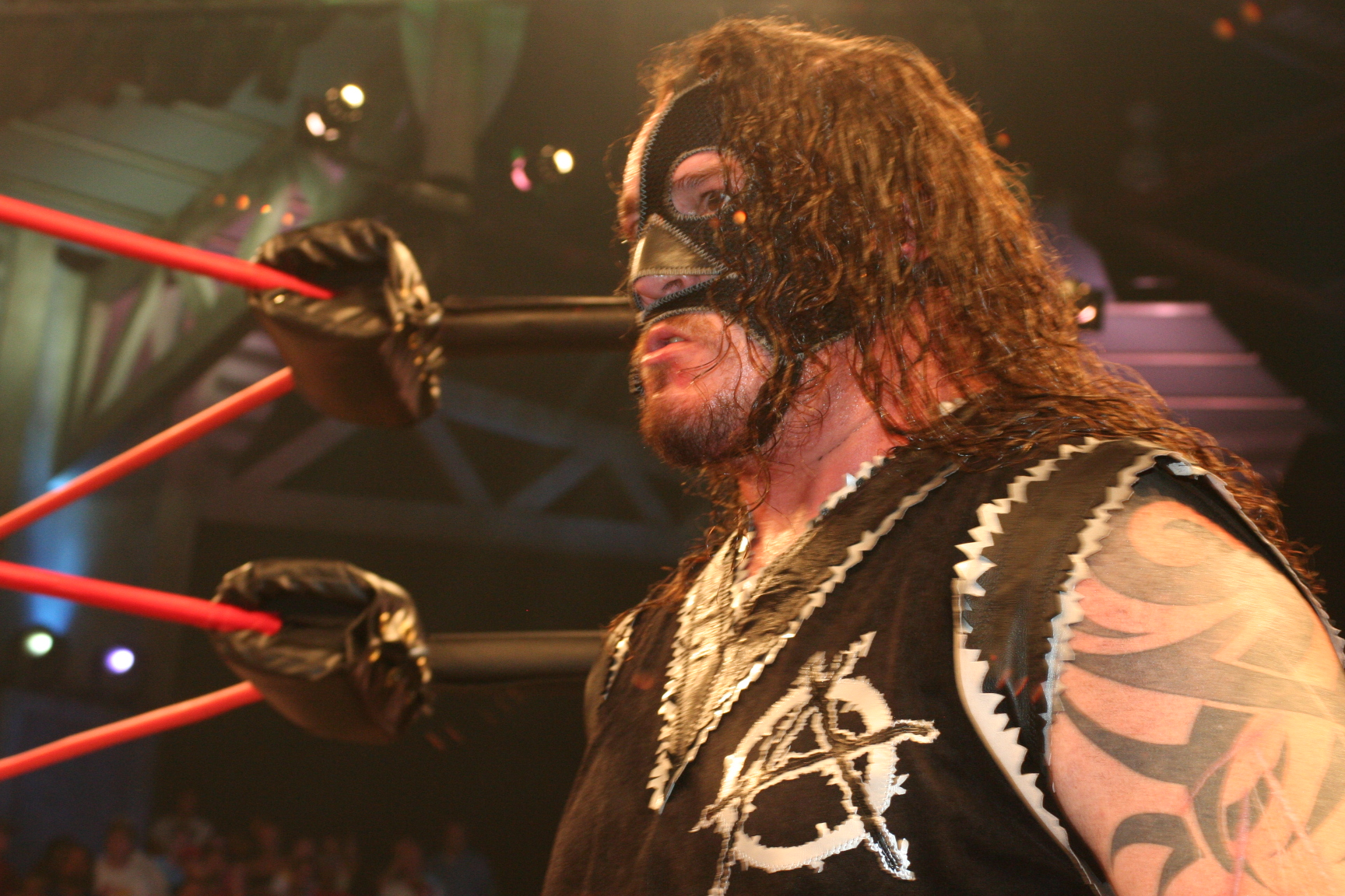 Professional wrestler Abyss at a TNA Impact! taping